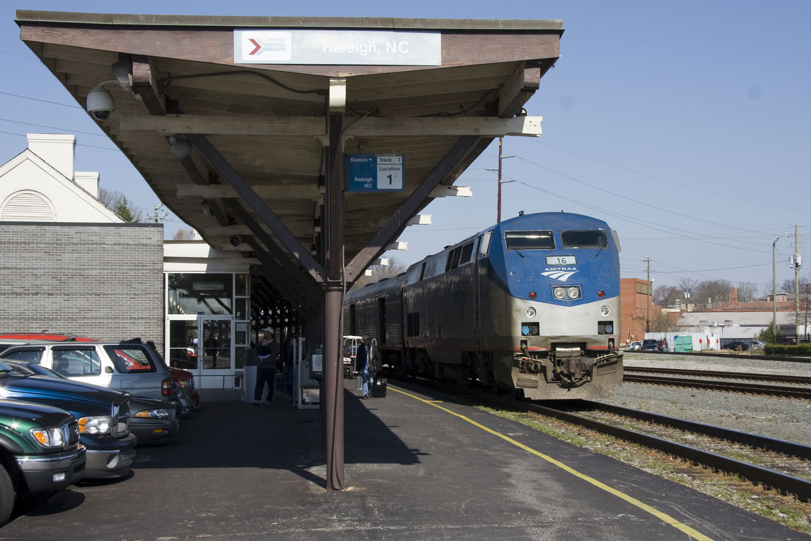 Amtrak Carolinian Train 80 stopped at the Raleigh, NC station on 12 March 2008.